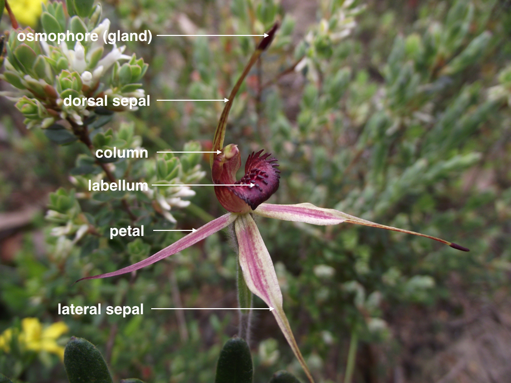 Labelled image of Caladenia ampla